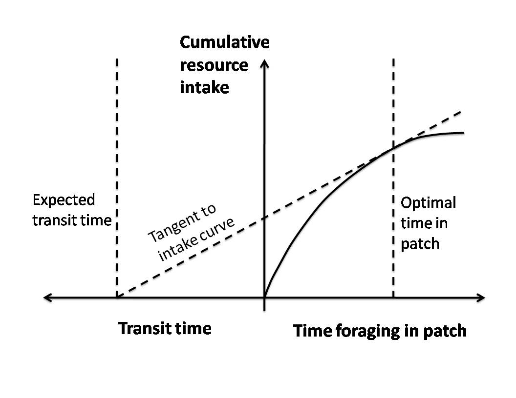 A graph of the Marginal Value Theorem as commonly used in Behavioral Ecology.